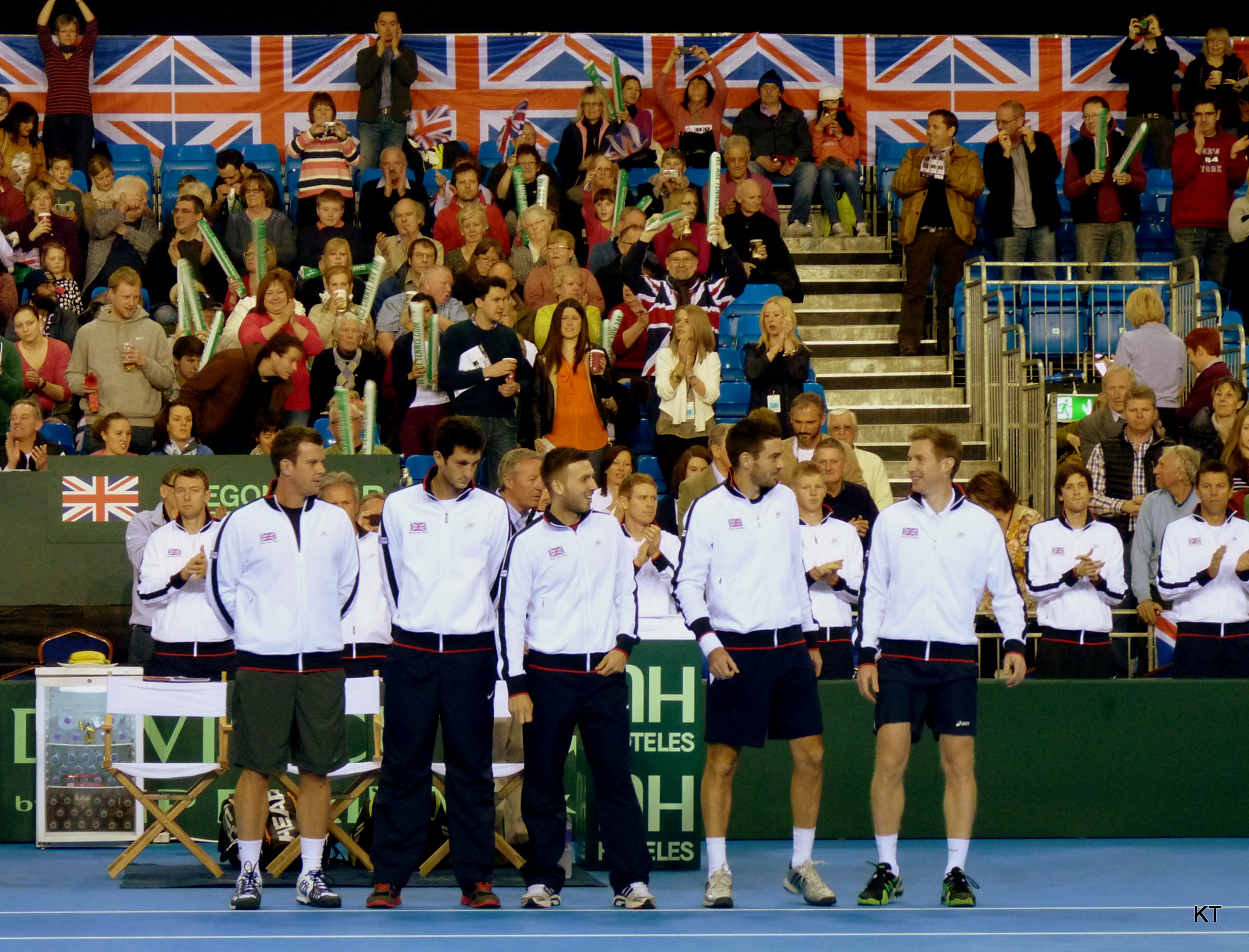 From left to right: Leon Smith (captain), James Ward, Dan Evans, Colin Fleming and Jonny Marray. The team beat Russia 3-2, in Coventry, to become the first British team since 1930 to win from 2-0 down.